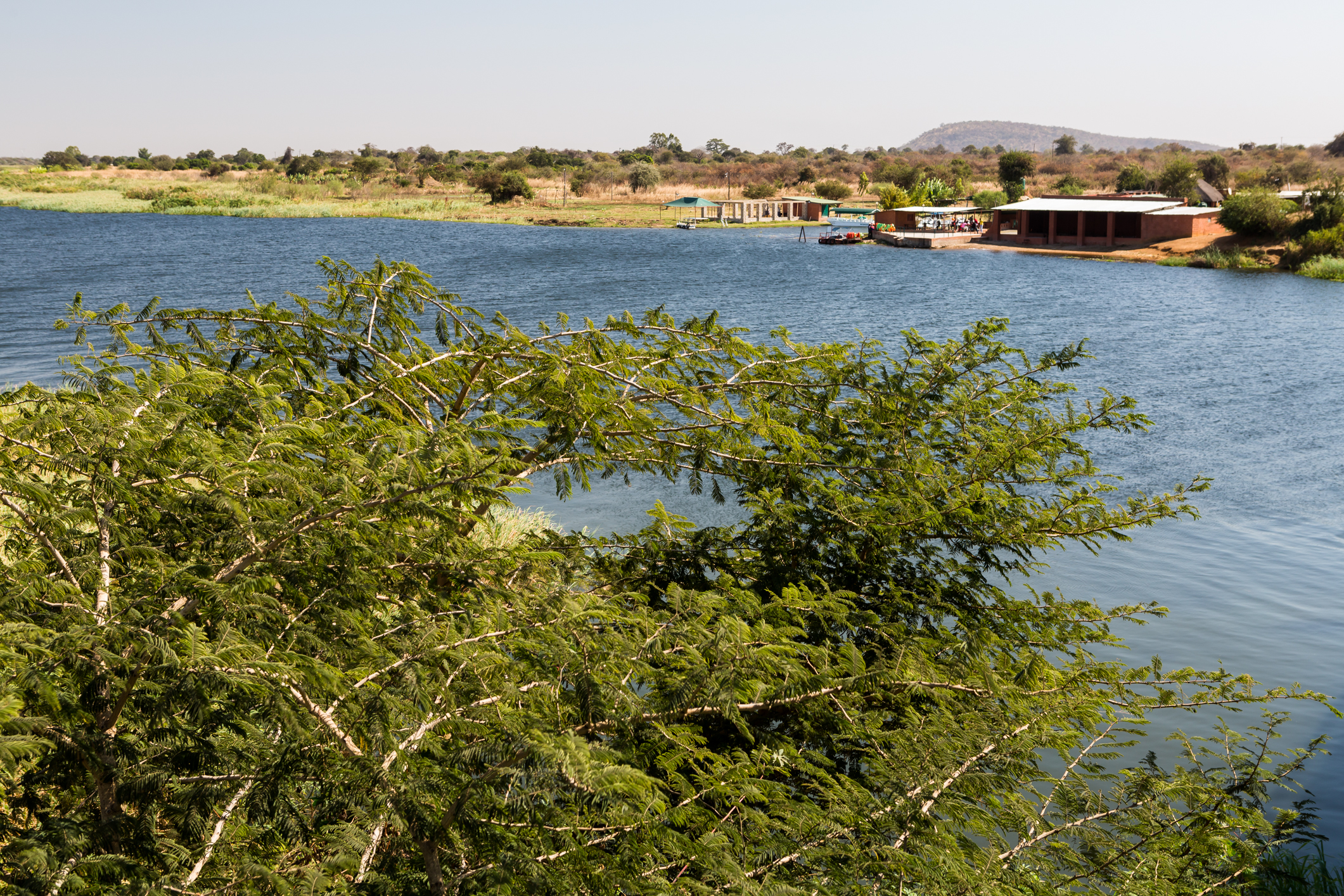 Kafue river as seen from Kafue bridge between Lusaka and Chirundu